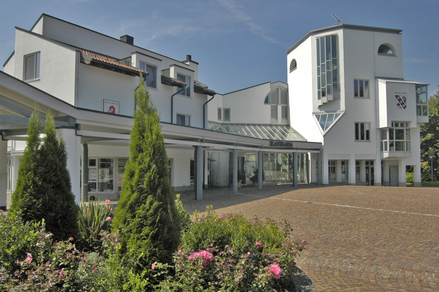 town hall in Finsing, near Munich.